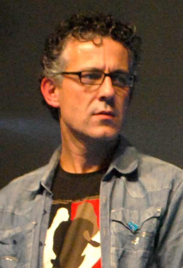 Xabier Mikel Errekondo Saltsamendi (also known as Xabier Mikel Recondo or Rekondo) is a politician and former player professional Spanish for handball.